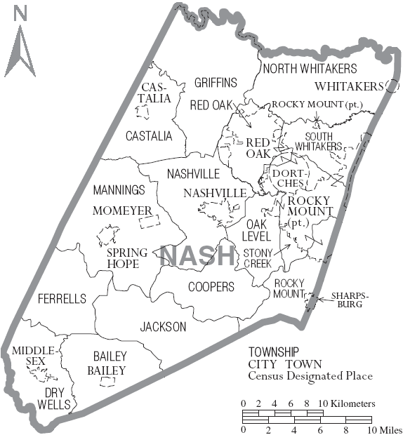 Map of Nash County, North Carolina, United States with township and municipal boundaries